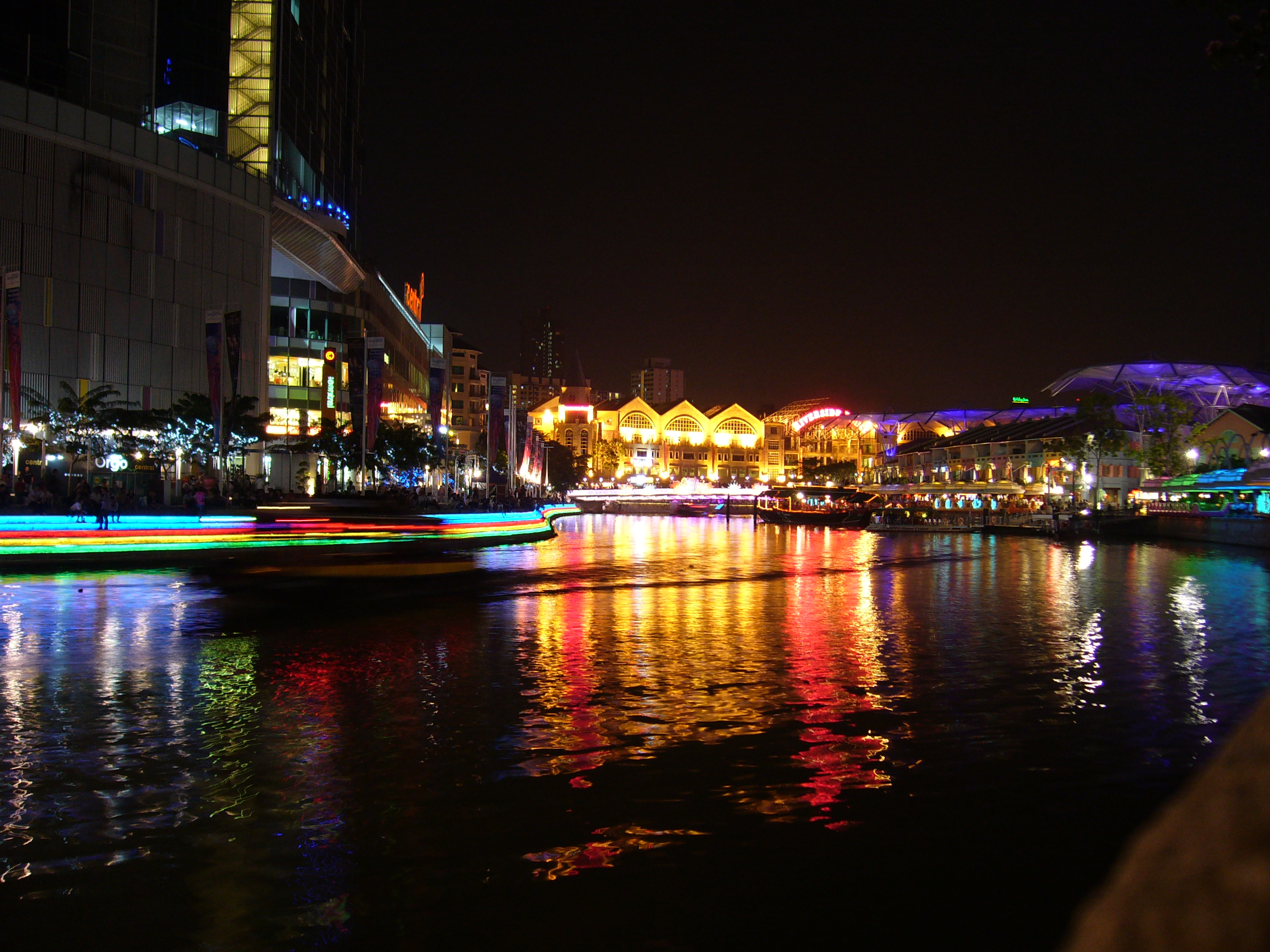 Clarke Quay, Singapore, by night.